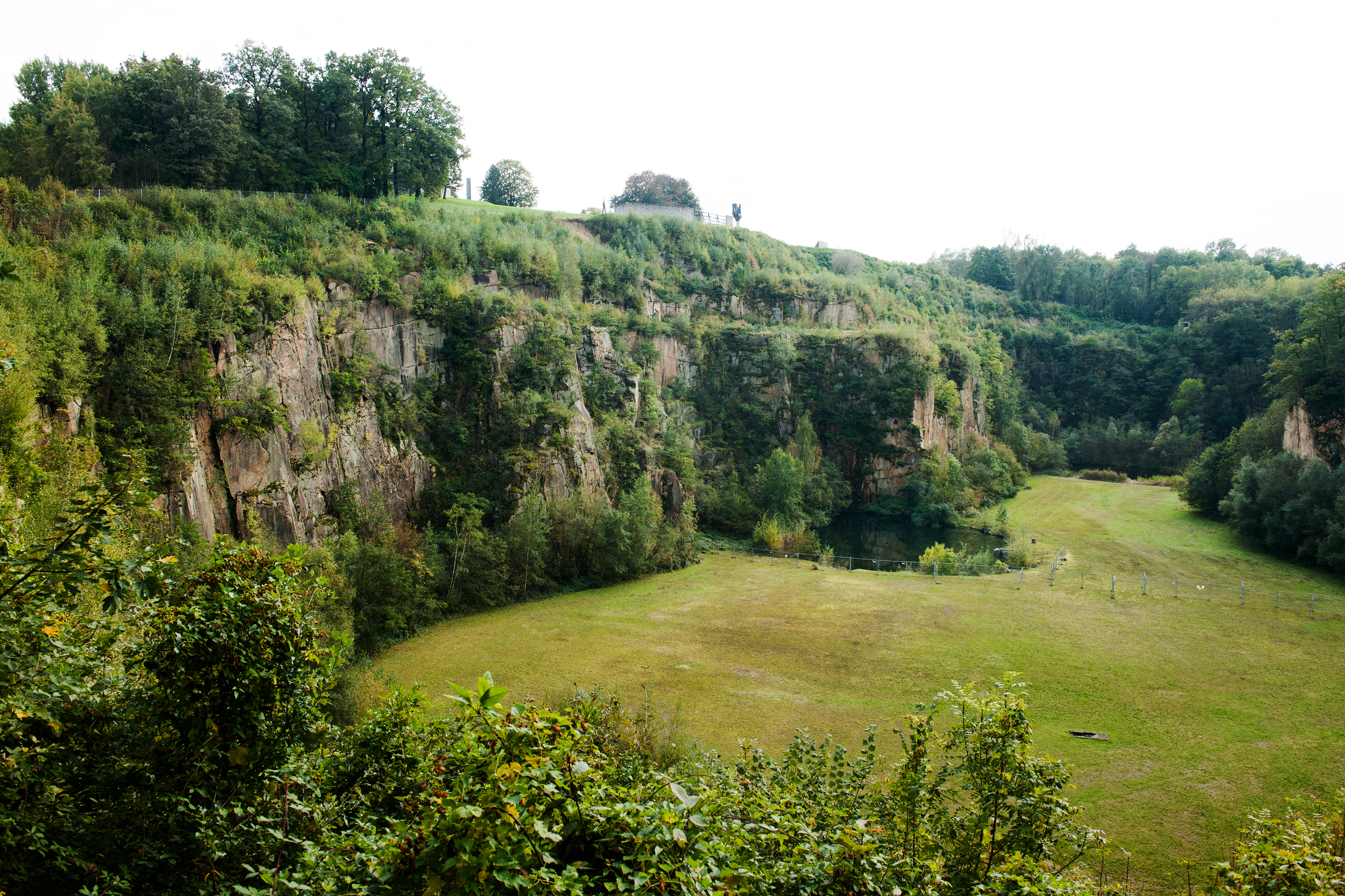 Mauthausen Memorial Dieses Bild wurde anlässlich des österreichischen Tags des Denkmals 2016 in Oberösterreich eingereicht.